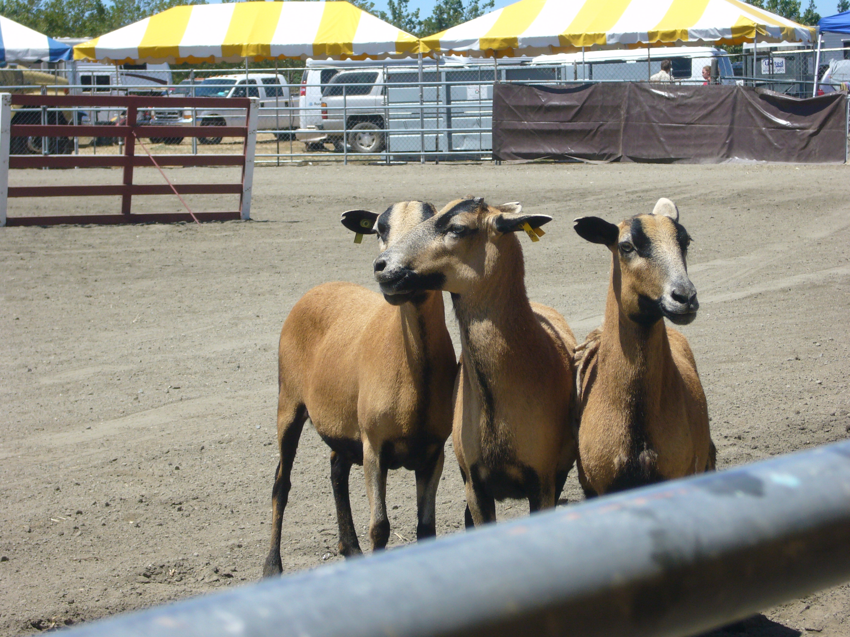 Barbados Blackbelly ewes in a sheepdog trial